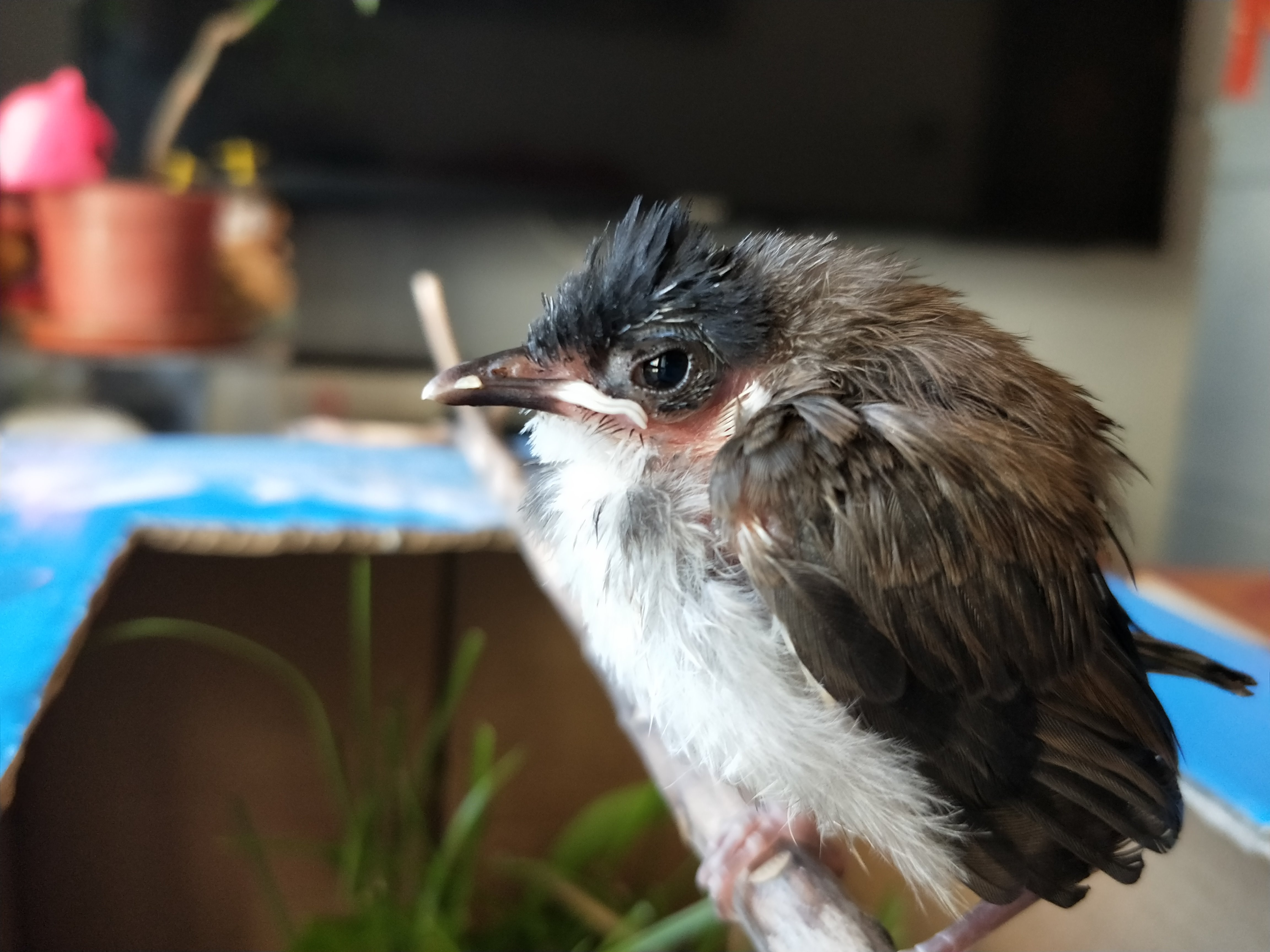 A young red-whiskered bulbul (3 weeks old)